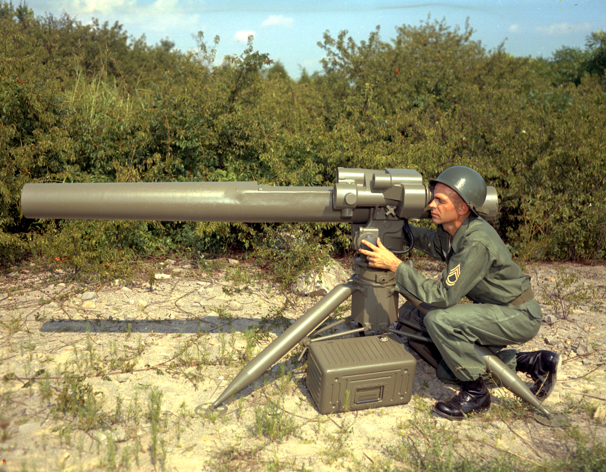 1st Conceptual Mockup of HAW (Heavy Antitank Weapon) anti-tank missile system which resulted in TOW, purposed to defense industry by the U.S. Army with the Redstone Arsenal in Alabama as the main project office.